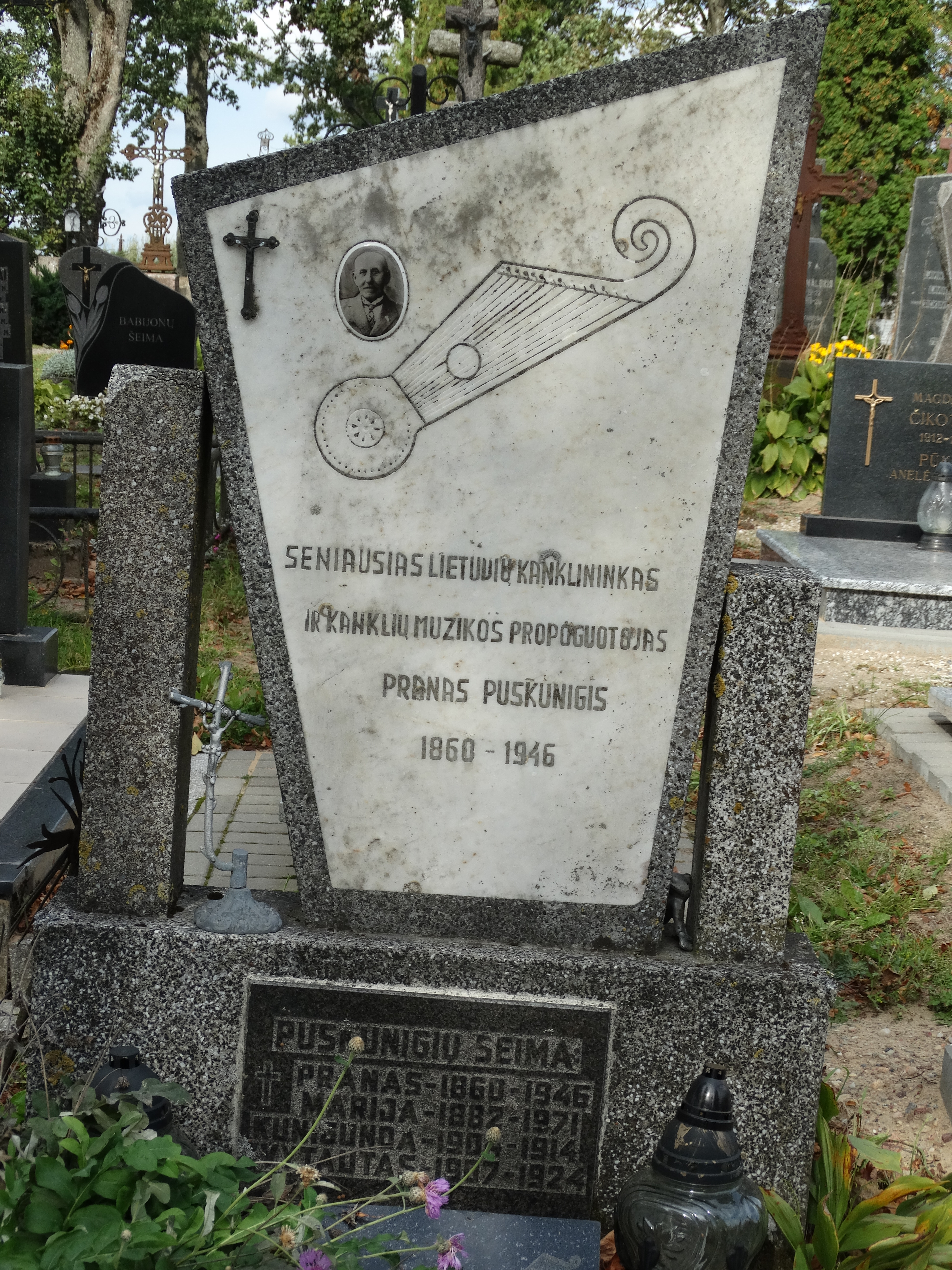 Pranas Puskunigis, Skriaudžiai cemetery, Prienai district, Lithuania